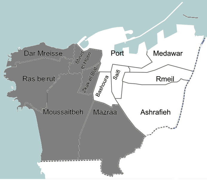 Beirut III electoral district. Based on File:Beirut I electoral district (2009).png